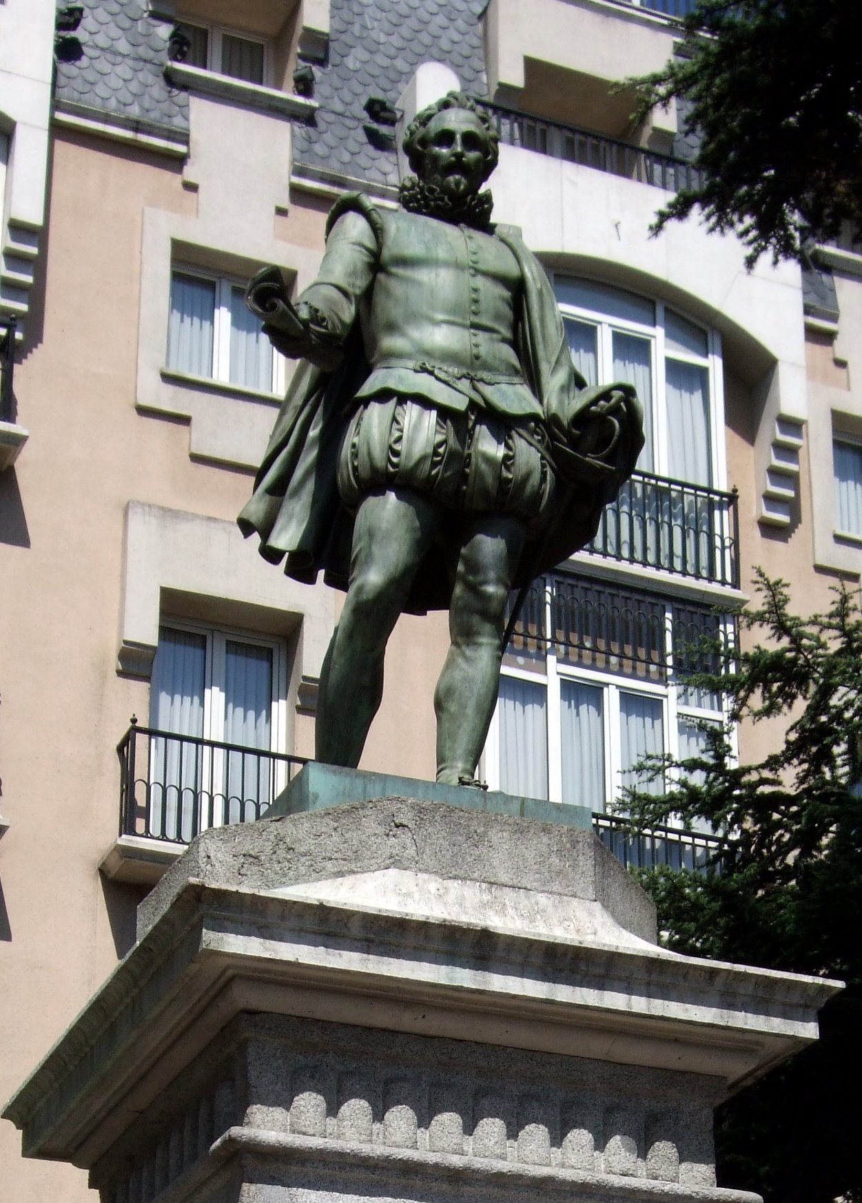 Partial view of the monument to Miguel de Cervantes at the Plaza de las Cortes (square) in Madrid (Spain), inaugurated in 1835. Bronze statue was designed by sculptor Antonio Solá and cast in Rome by Prussian artists Wilhelm N. Hopfgarten and Ludwig Jollage. Pedestal was projected by architect Isidro González Velázquez and it has two bronze reliefs by José Piquer.